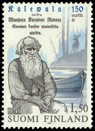 Postage stamp depicting the Finnish oral poet Petri Shemeikka